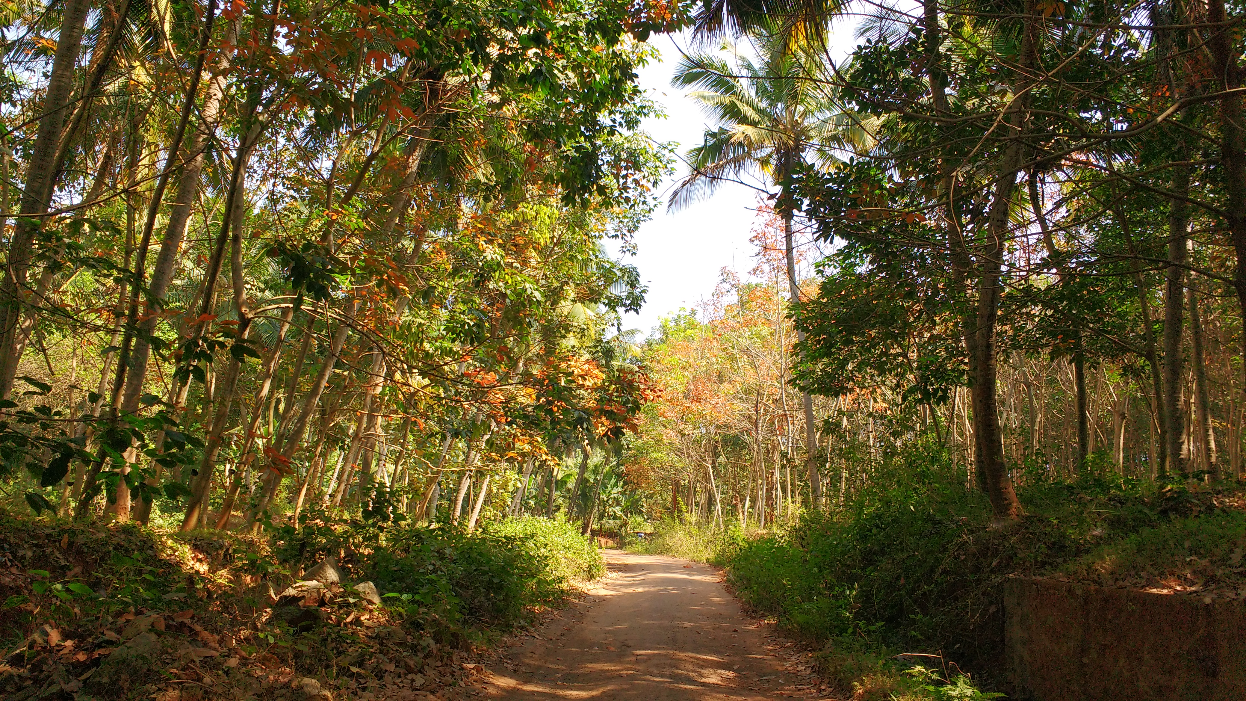 Charming Chemmuthal